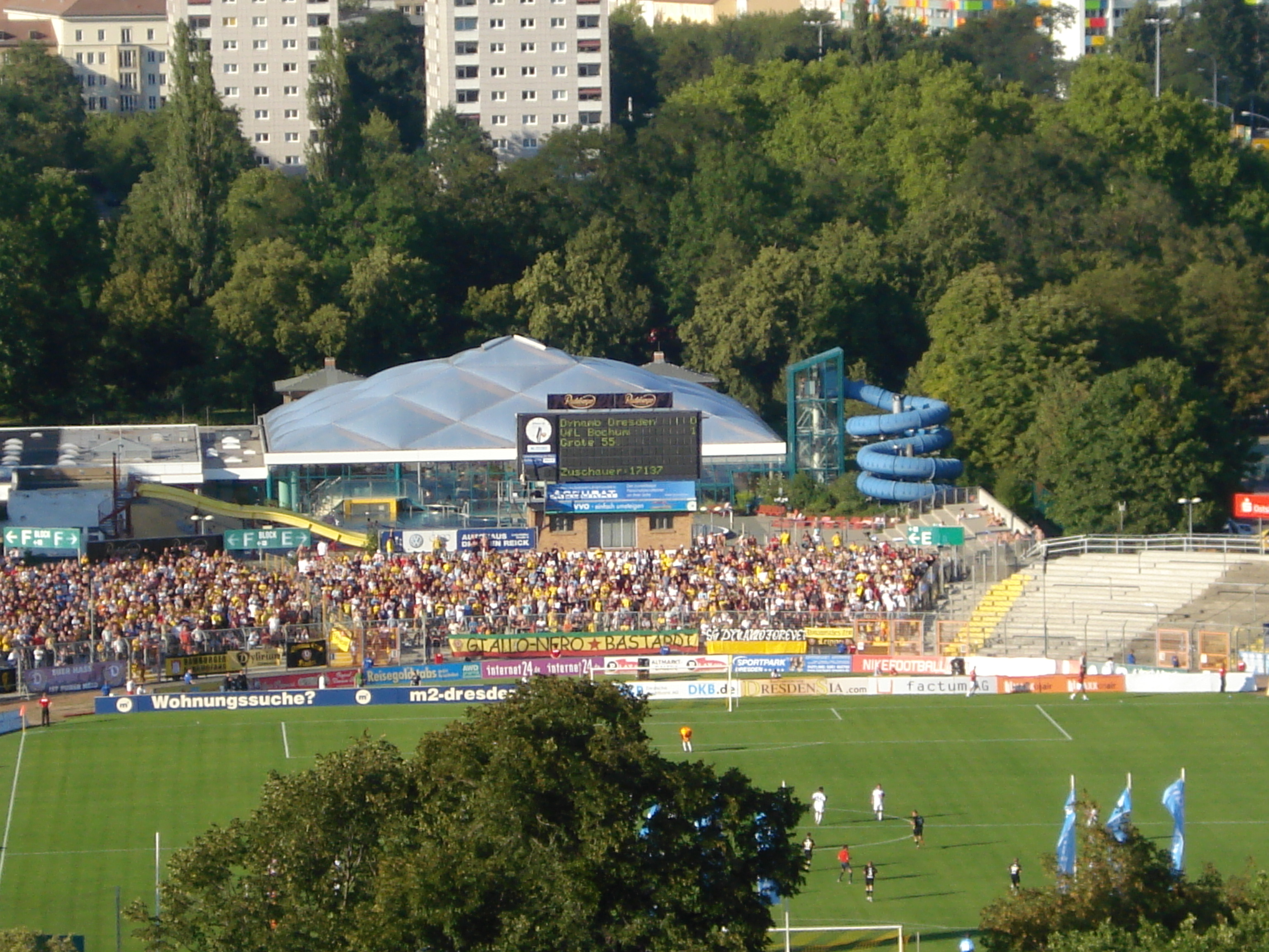 „Yellow-Black Bastards". 1. Runde DFB-Pokal 2007/2008, Endergebnis 0:1